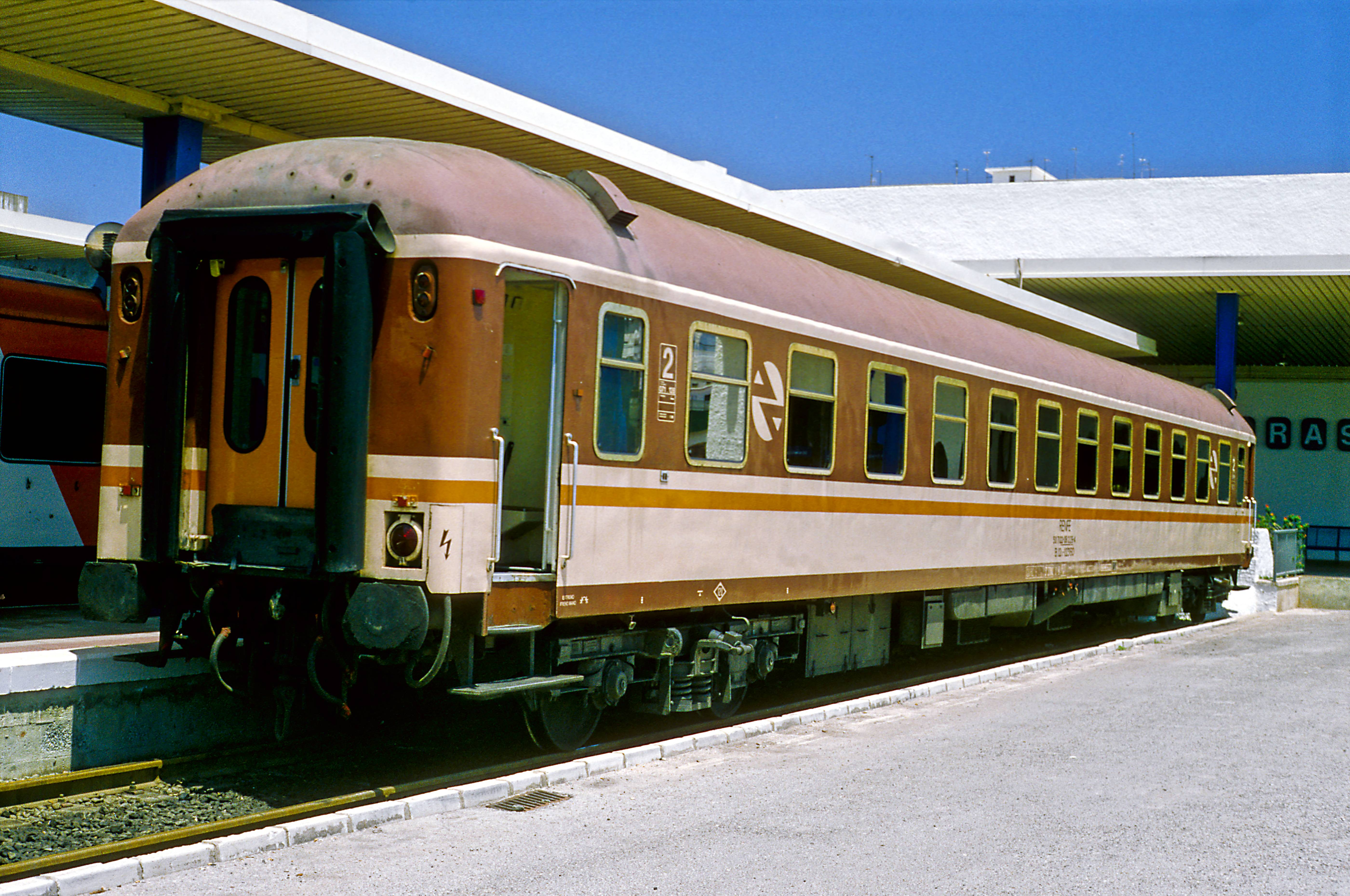 Renfe couchette car Bc11x-11600 (transformation of ex BB 8500 UIC-X), with Estrella livery, in Algeciras.